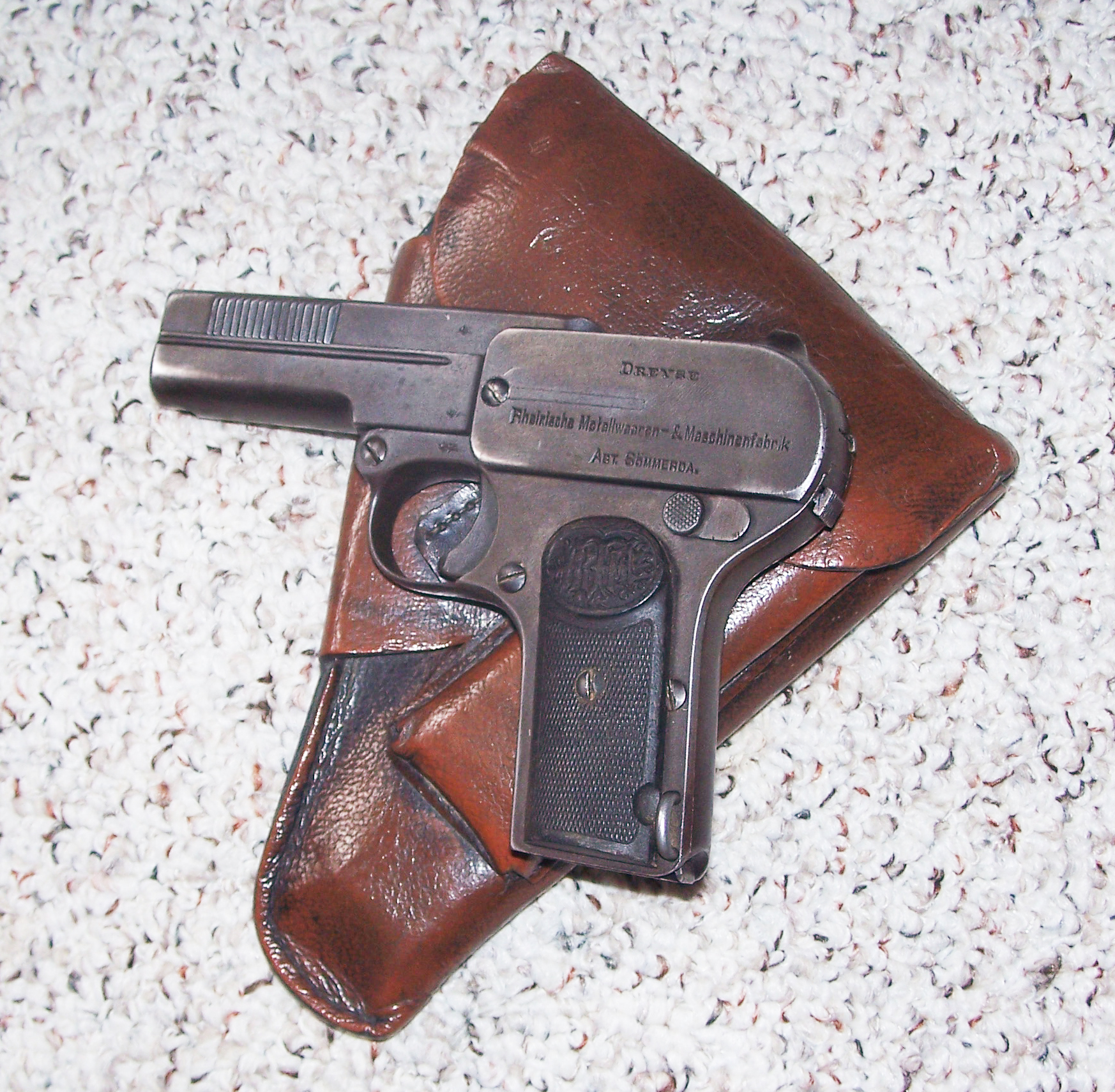 Dreyse M1907 pistol with Prestoff Holster